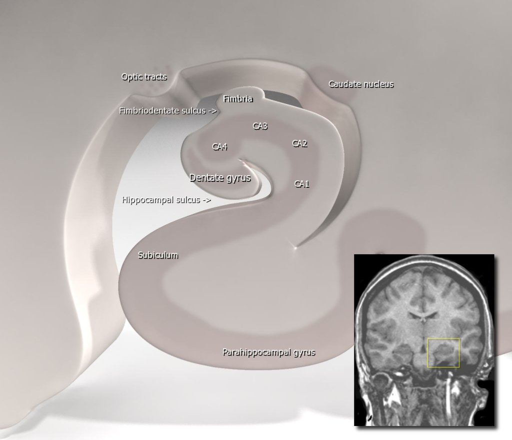 Stylised diagram of the hippocampus